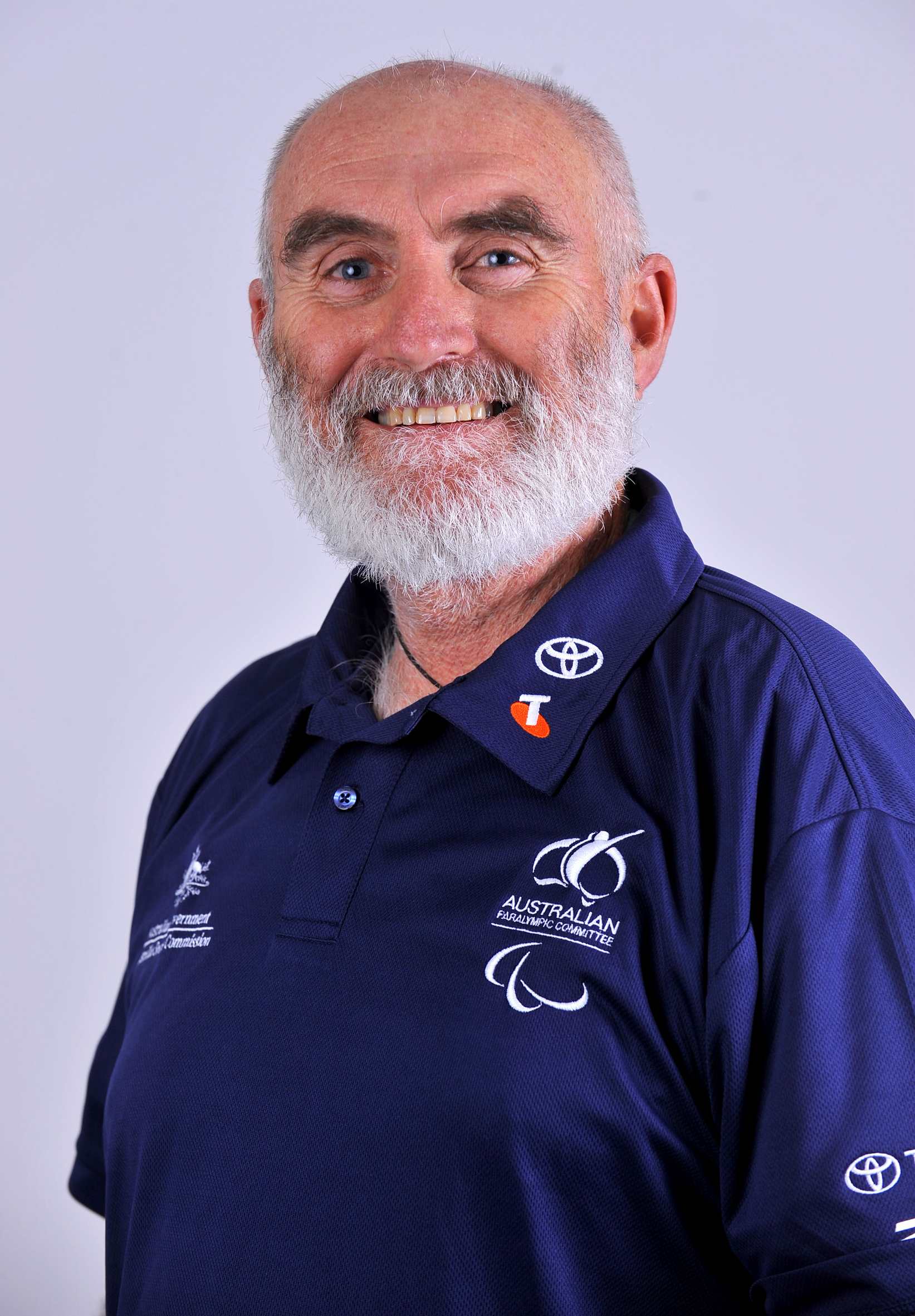 Portrait of Australian sailor Stephen Churm, 2012 Australian Paralympic (shadow) Team athlete